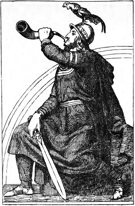 The god Heimdallr with the horn Gjallarhorn and a chicken on top of his head (perhaps the rooster Gullinkambi) as depicted (1907) by Johan Thomas Lundbye.